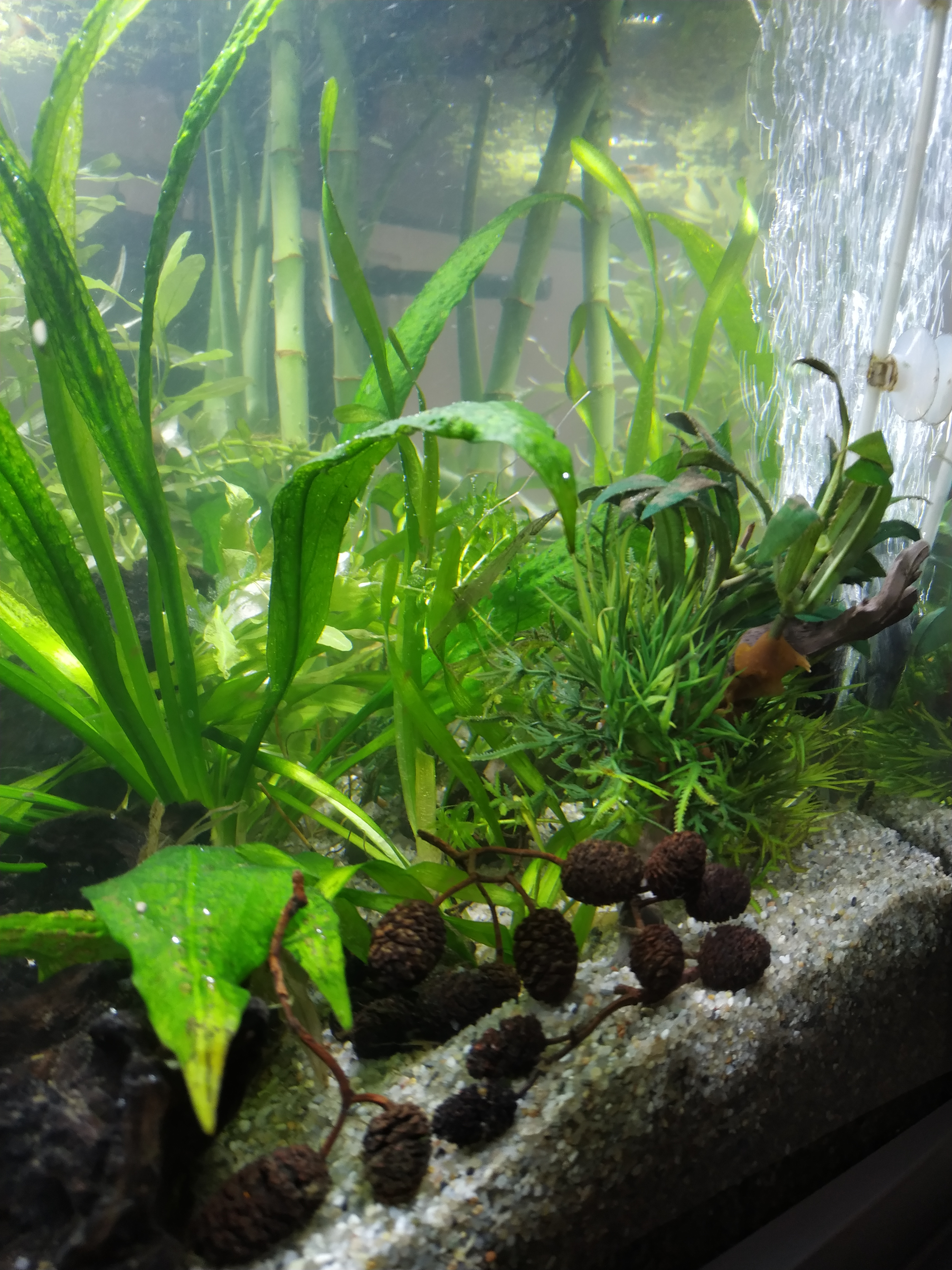 alder cones